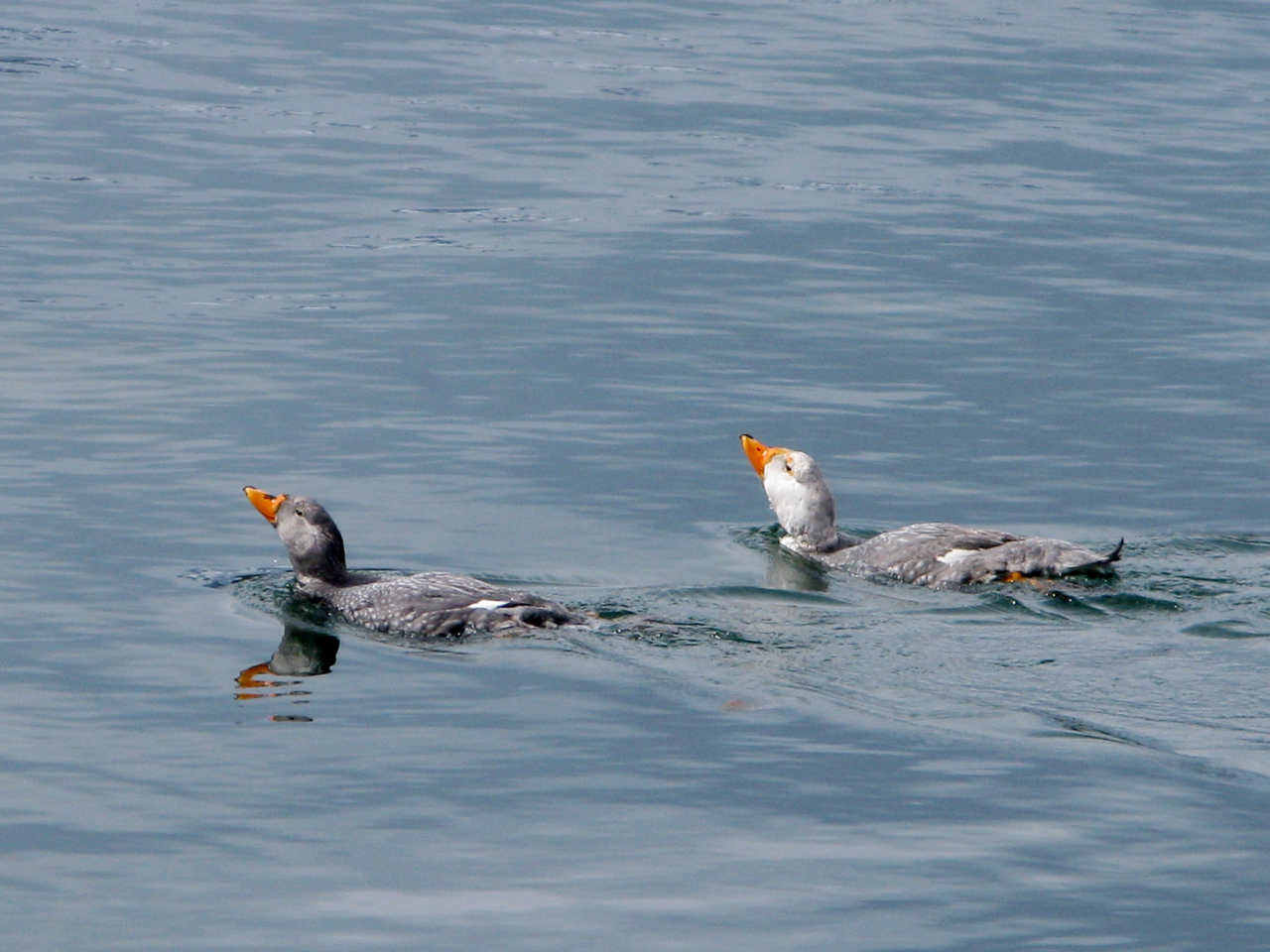 Vapor Duck Park National Tierra del Fuego